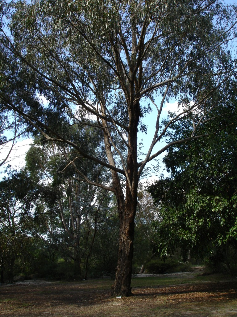 Photographed at Maranoa Gardens, Melbourne, Victoria, Australia by HelloMojo 08:14, 6 April 2007 (UTC)